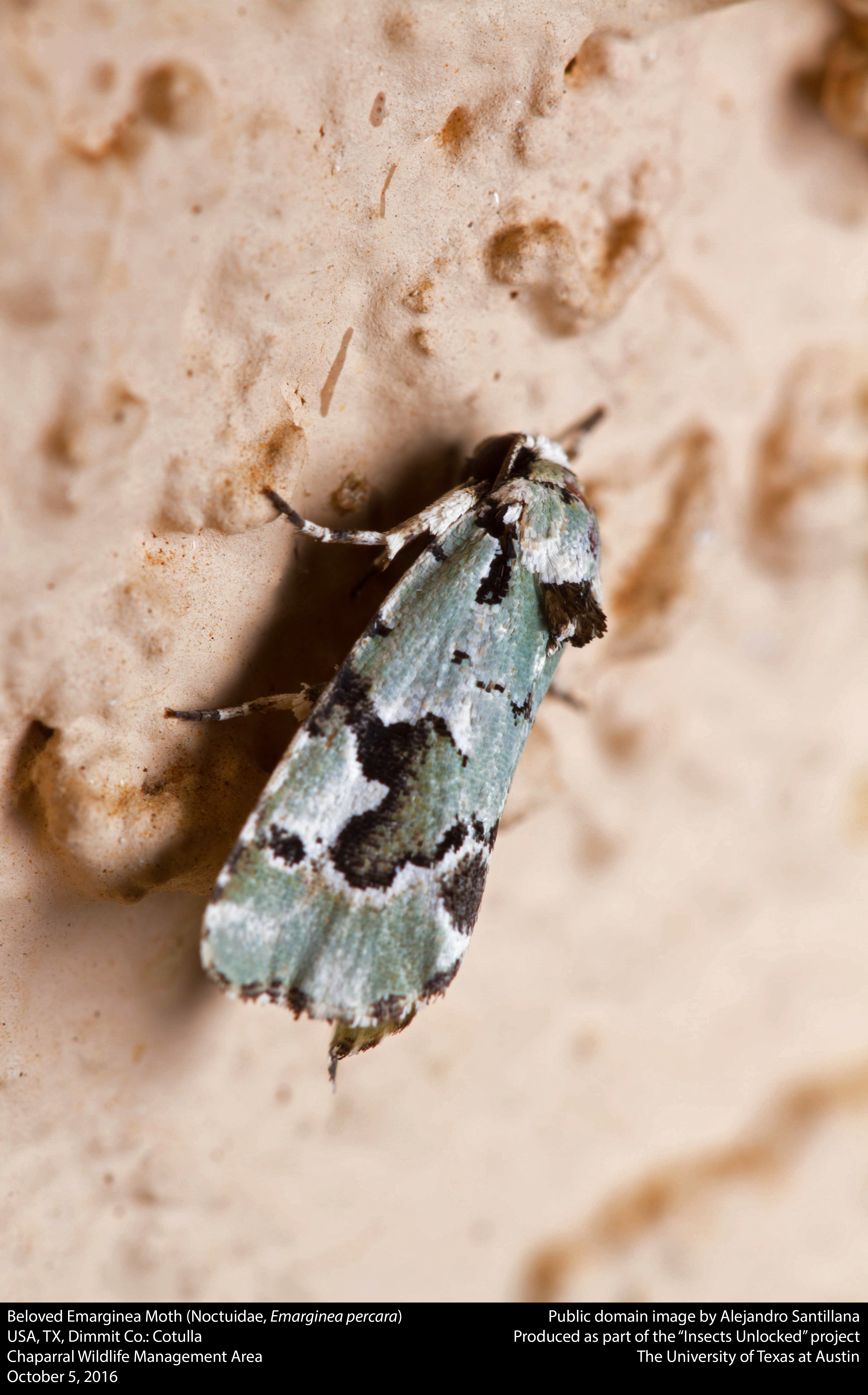 USA, TX, Dimmit Co.: Cotulla Chaparral Wildlife Management Area 5-x-2016